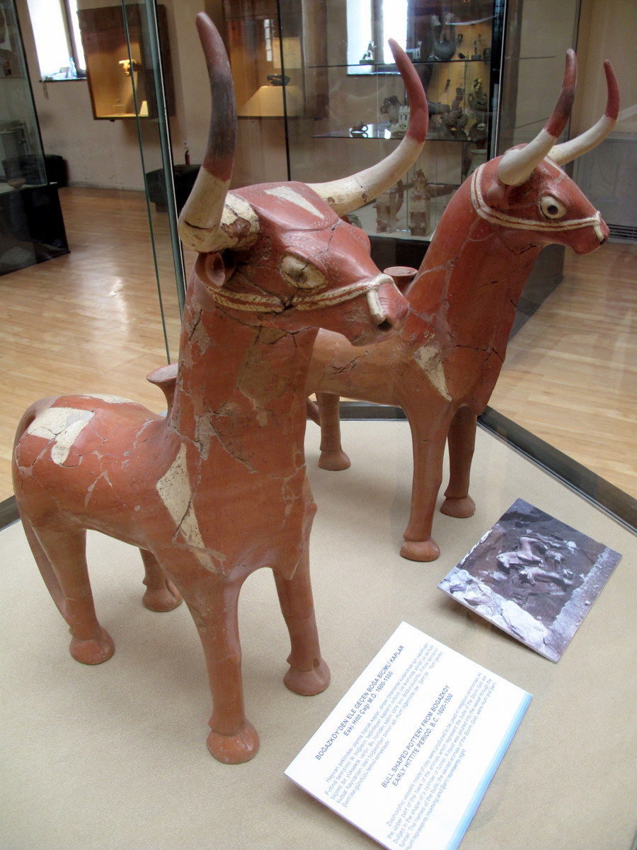 remember the golden calf -- well these are the peoples who inspired it. i will log our trip to one of the more amazing archeological museums i have seen.